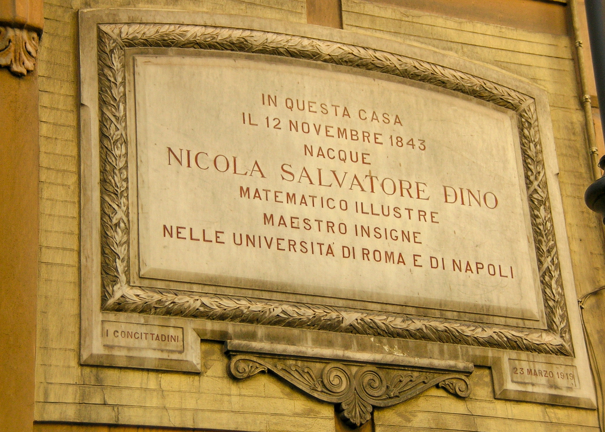 Lapide to Nicola Salvatore Dino on the facade of the birth house in Torre Annunziata